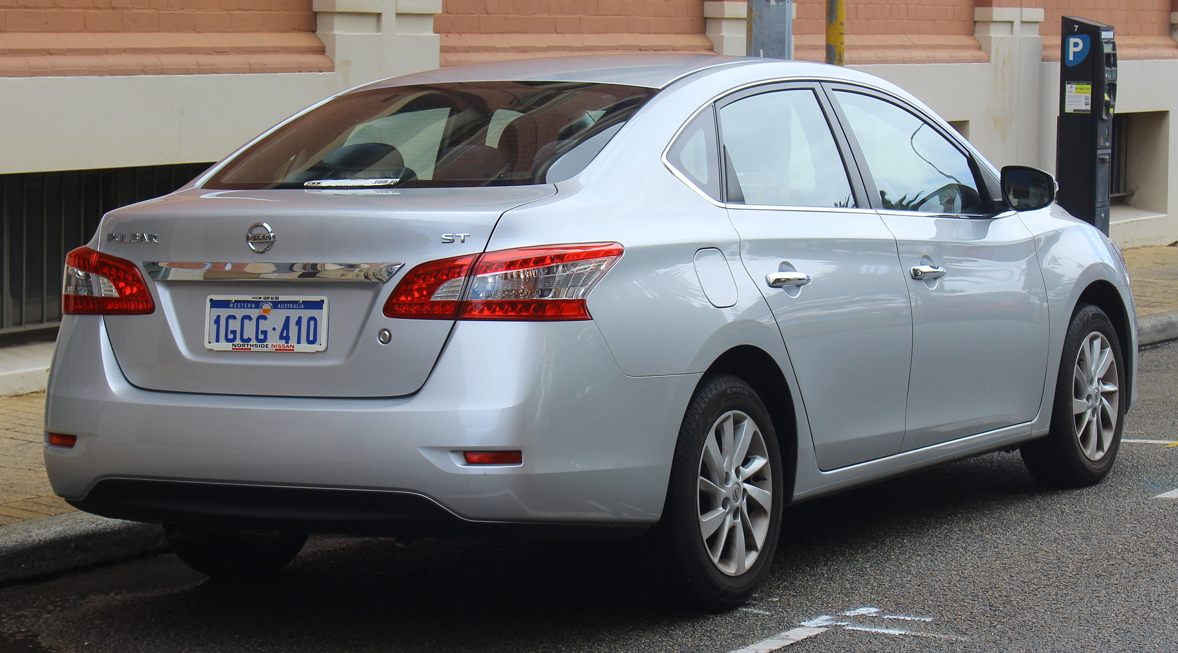 2016 Nissan Pulsar (B17 Series 2) ST sedan. Photographed in Fremantle, Western Australia, Australia.